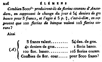 scan from page 226 of Euler's Elemens d'Algèbre, Paris 1807